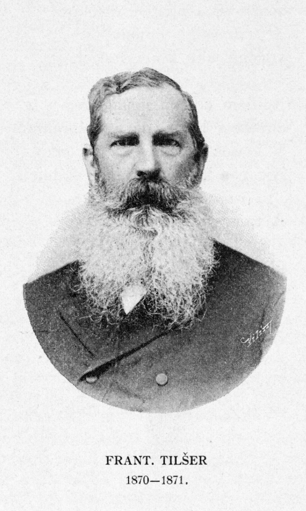 František Tilšer (1825-1913) was a Czech mathematician.